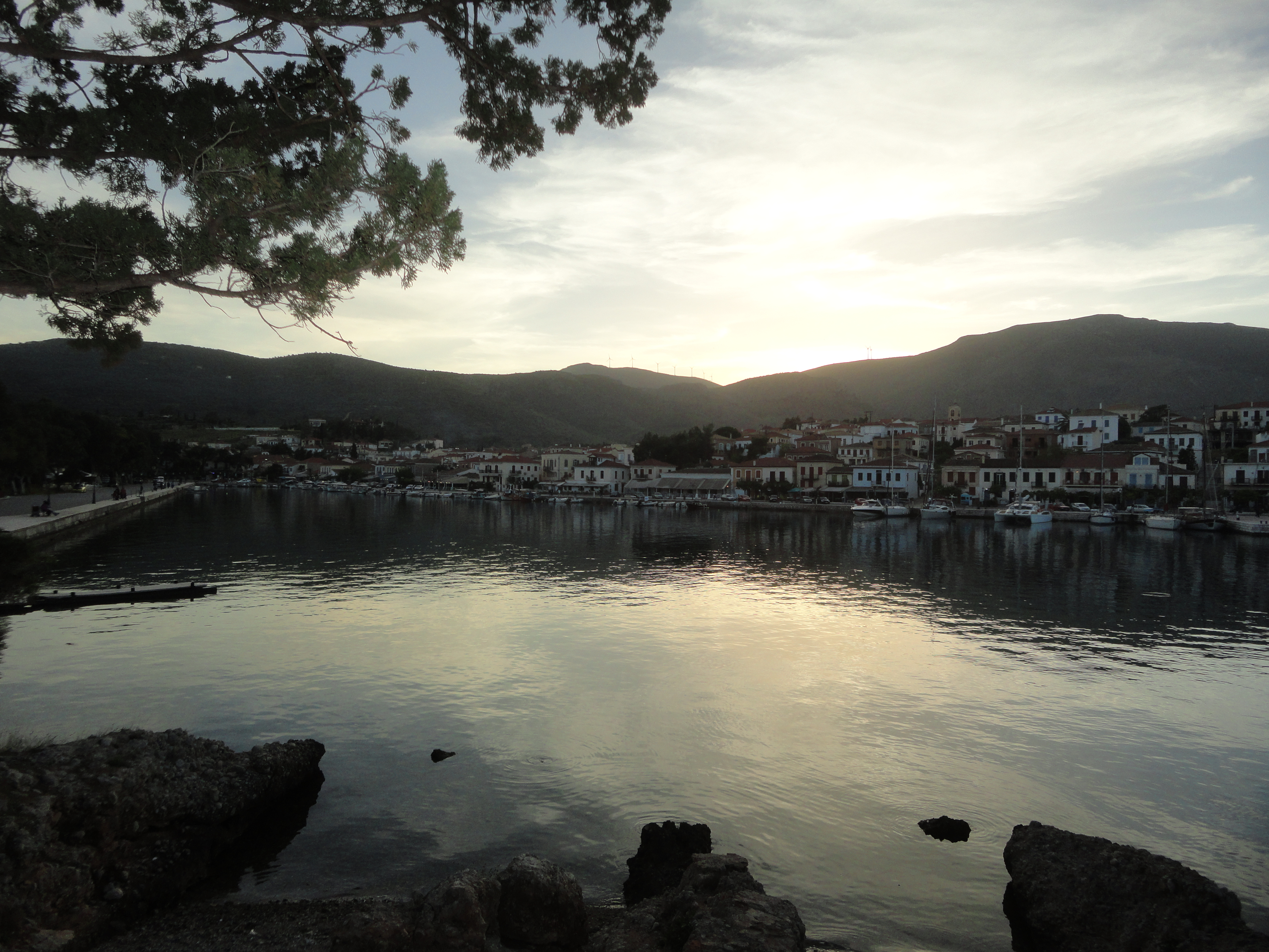 This is a photography of Natura 2000 protected area with ID GR2450004